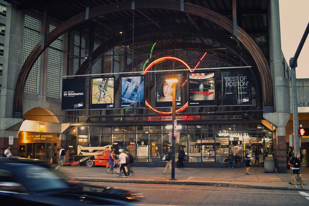 Front facade of Back Bay station at sunset